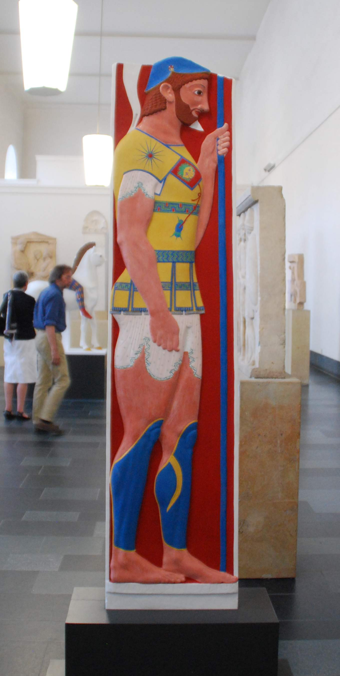 Antikensammlung Berlin - Modern reconstruction of the original polychromy of a classical age Greek stele. On a loan by the Glyptotek in Munich for the Bunte Götter exhibition.